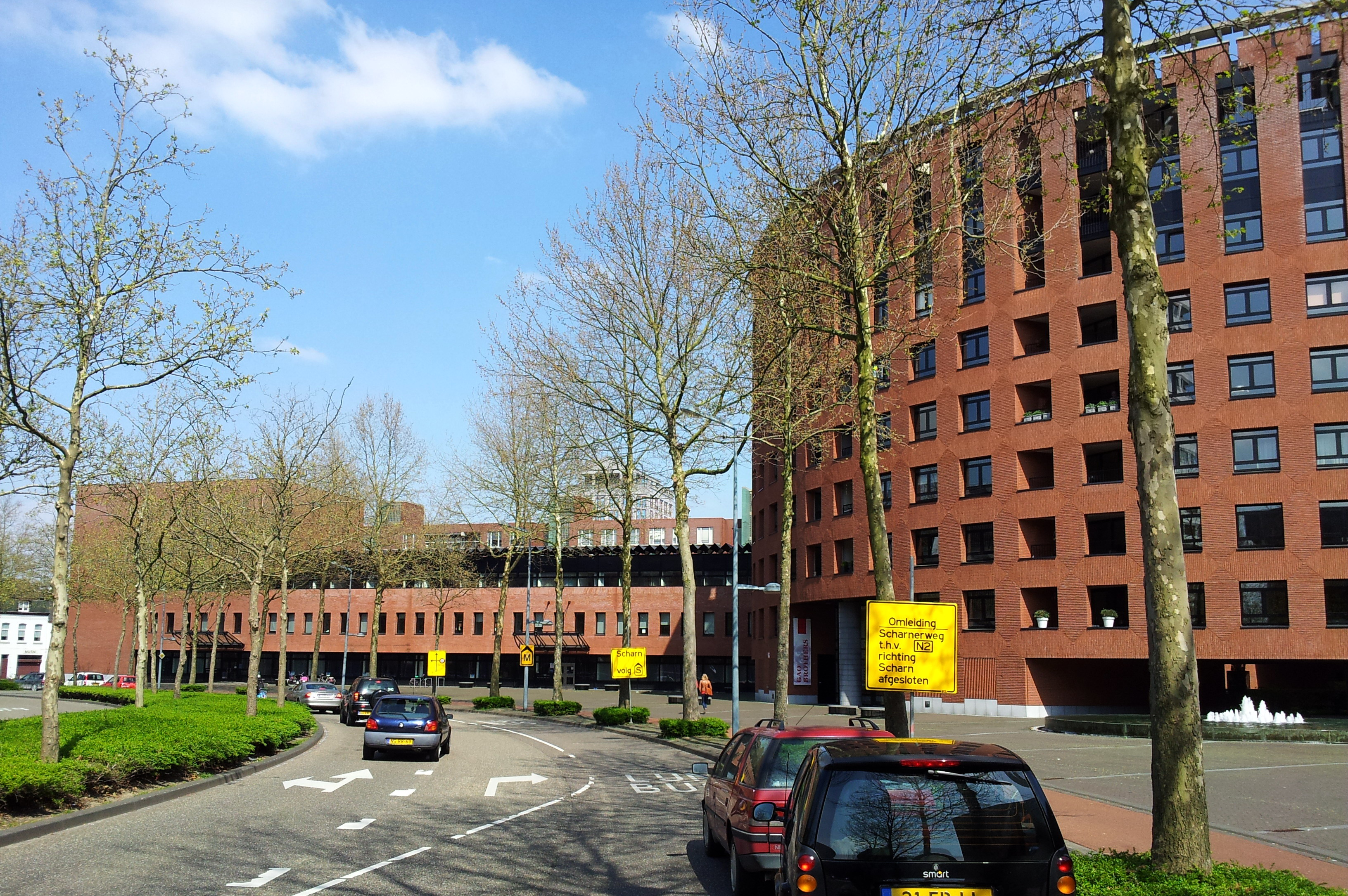 Maastricht, the Netherlands. View of La Fortezza, one of the buildings on Avenue Céramique, designed by Mario Botta